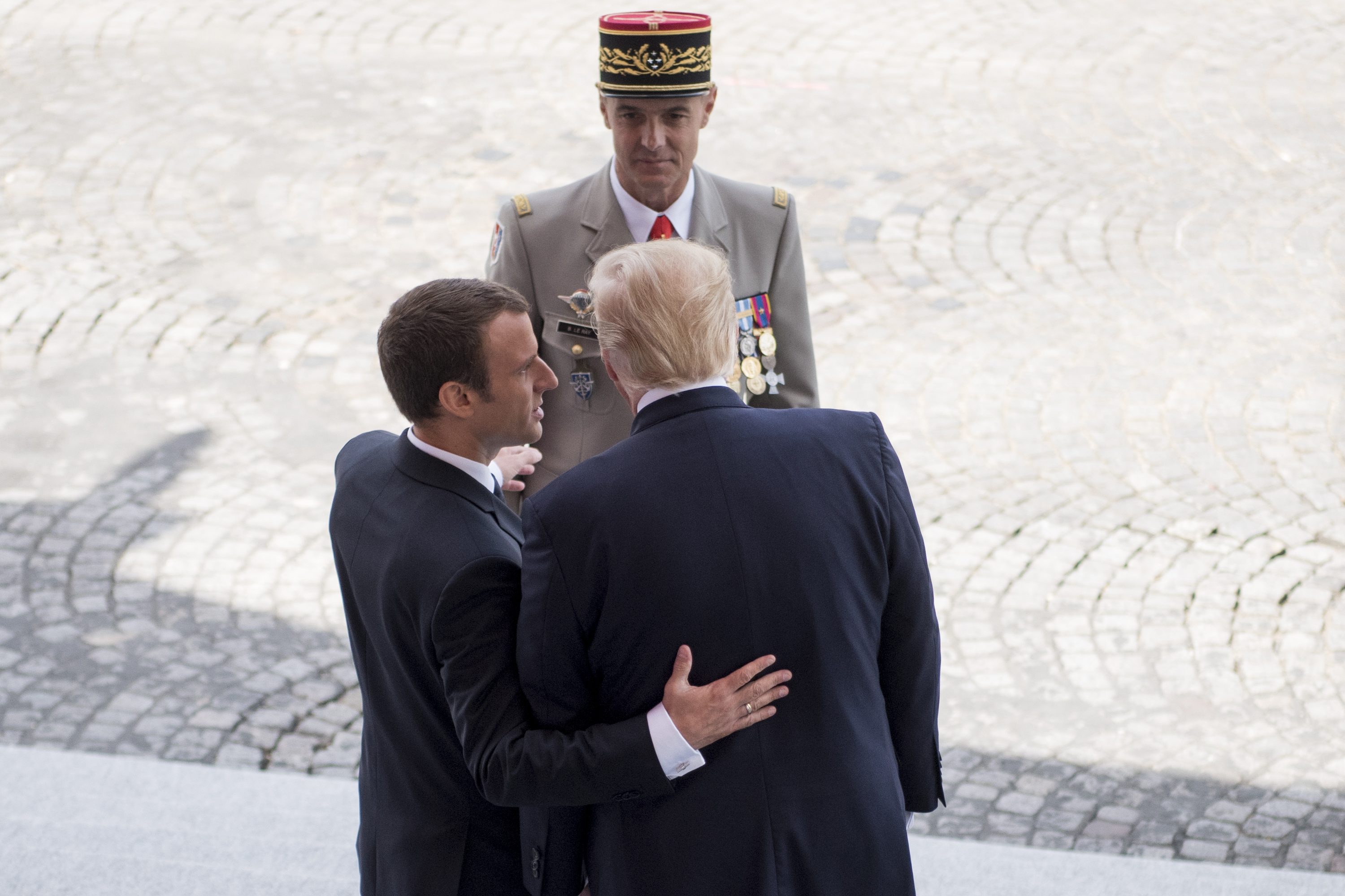 French President Emmanuel Macron speaks to President Donald J. Trump during the Bastille Day military parade in Paris, July 14, 2017. Macron and Trump recognized the continuing strength of the U.S.-France alliance from World War I to today. DoD photo by Navy Petty Officer 2nd Class Dominique Pineiro